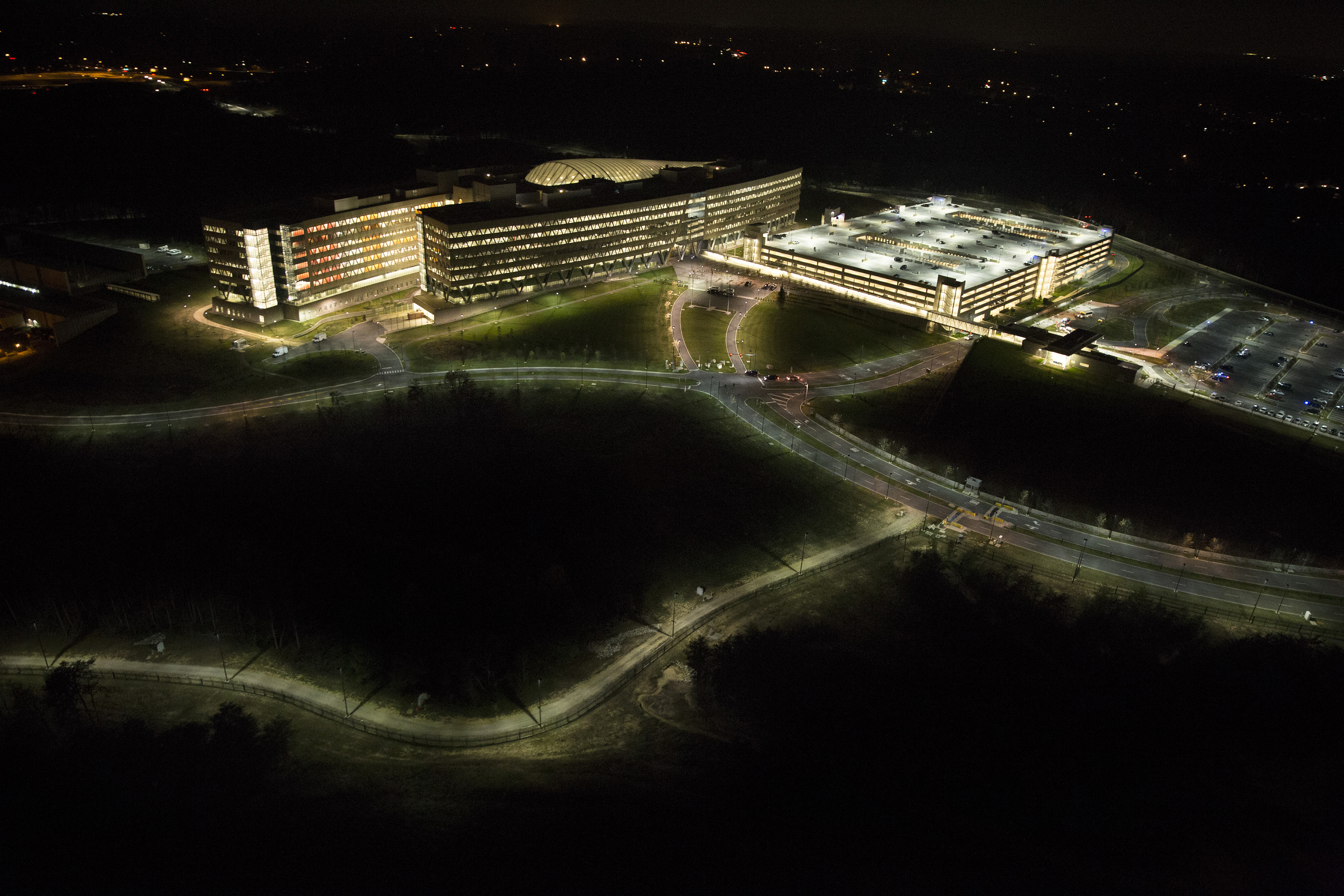 Aerial photograph of the National Geospatial-Intelligence Agency by Trevor Paglen. Commissioned by Creative Time Reports, 2013.